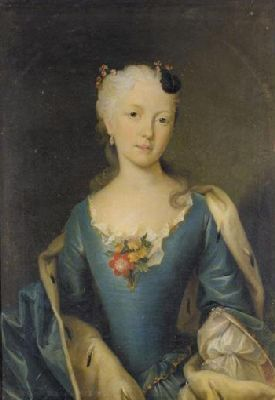 Princess Sophie Antoinette of Brunswick-Wolfenbüttel (1724-1802), duchess of Saxe-Coburg-Saalfeld